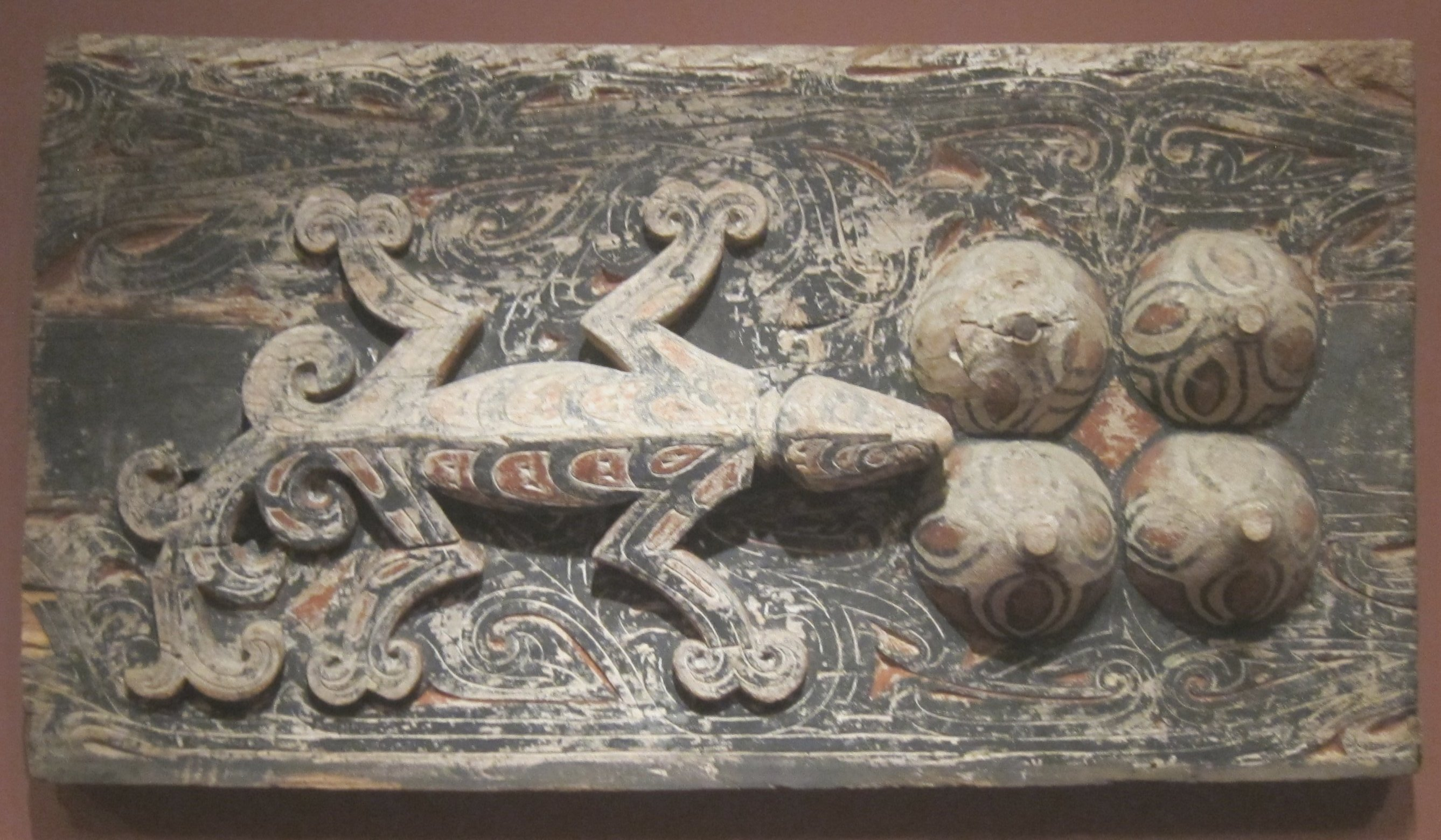 Section of a granary facade, Sumatra, Toba Batak, 19th century, wood, Honolulu Museum of Art